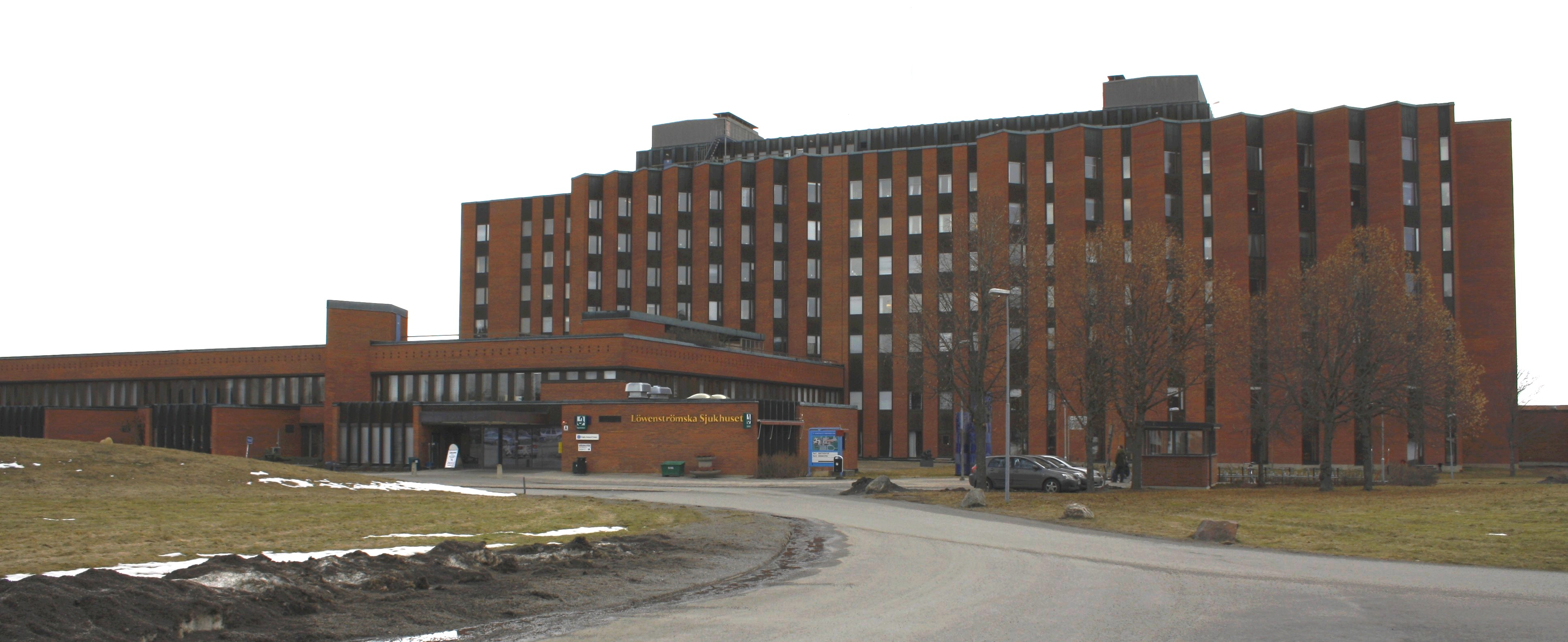 The Löwenström hospital in upplands Väsby north of Stockholm, Sweden